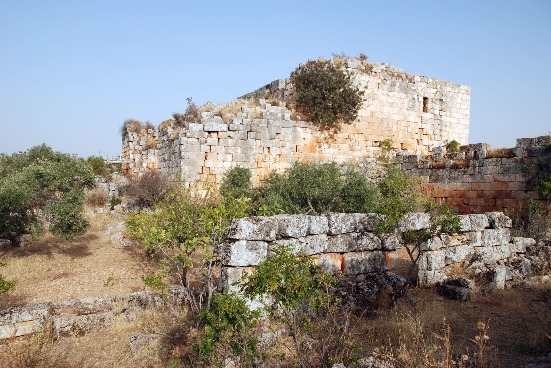 Al-Bara, dead city in Syria. Qalat Abu Safyan